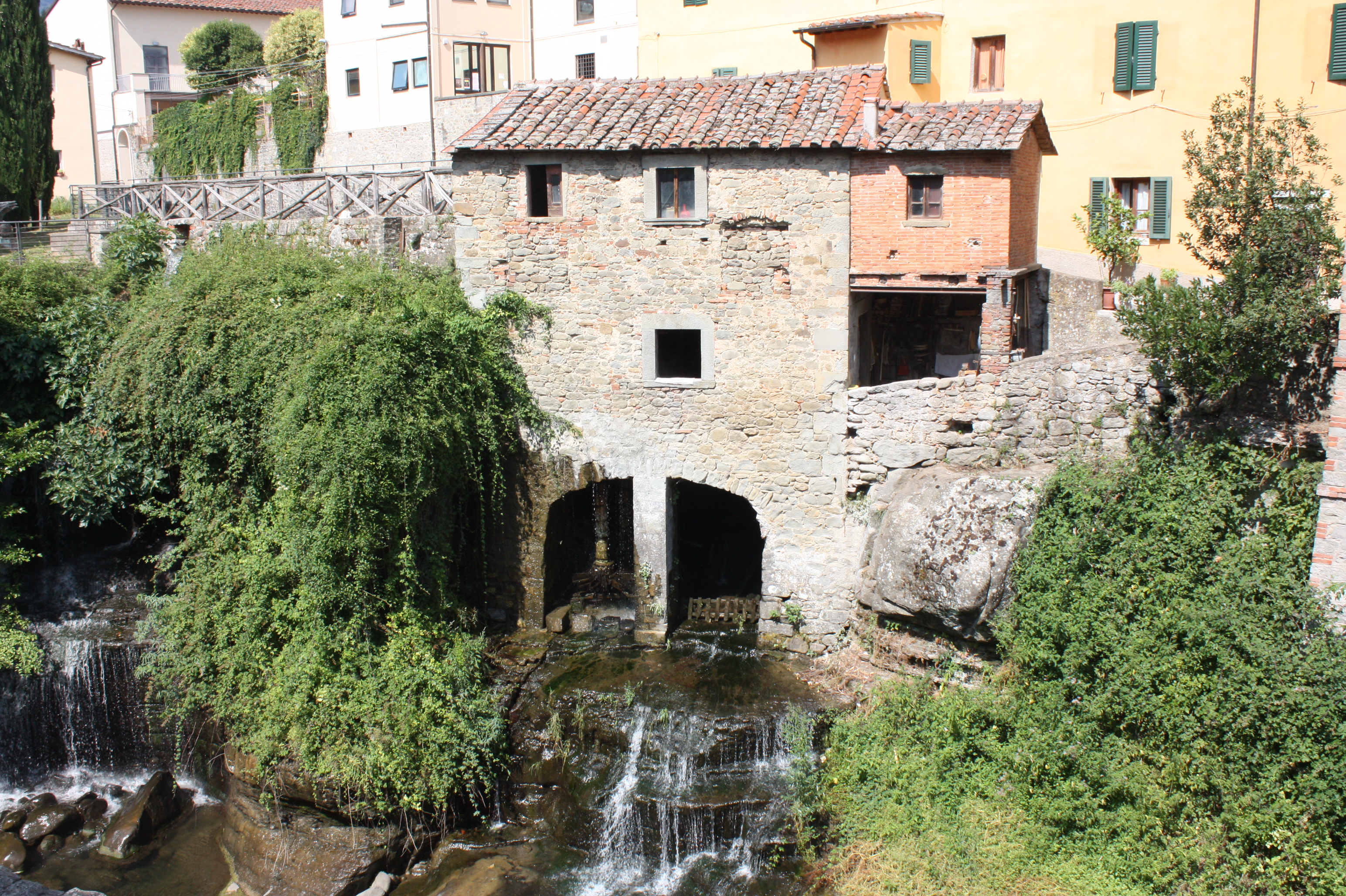 Loro Ciuffenna water mill, city in Toscany